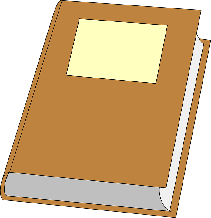 benda berupa kumpulan kertas dan dapat ditulisi